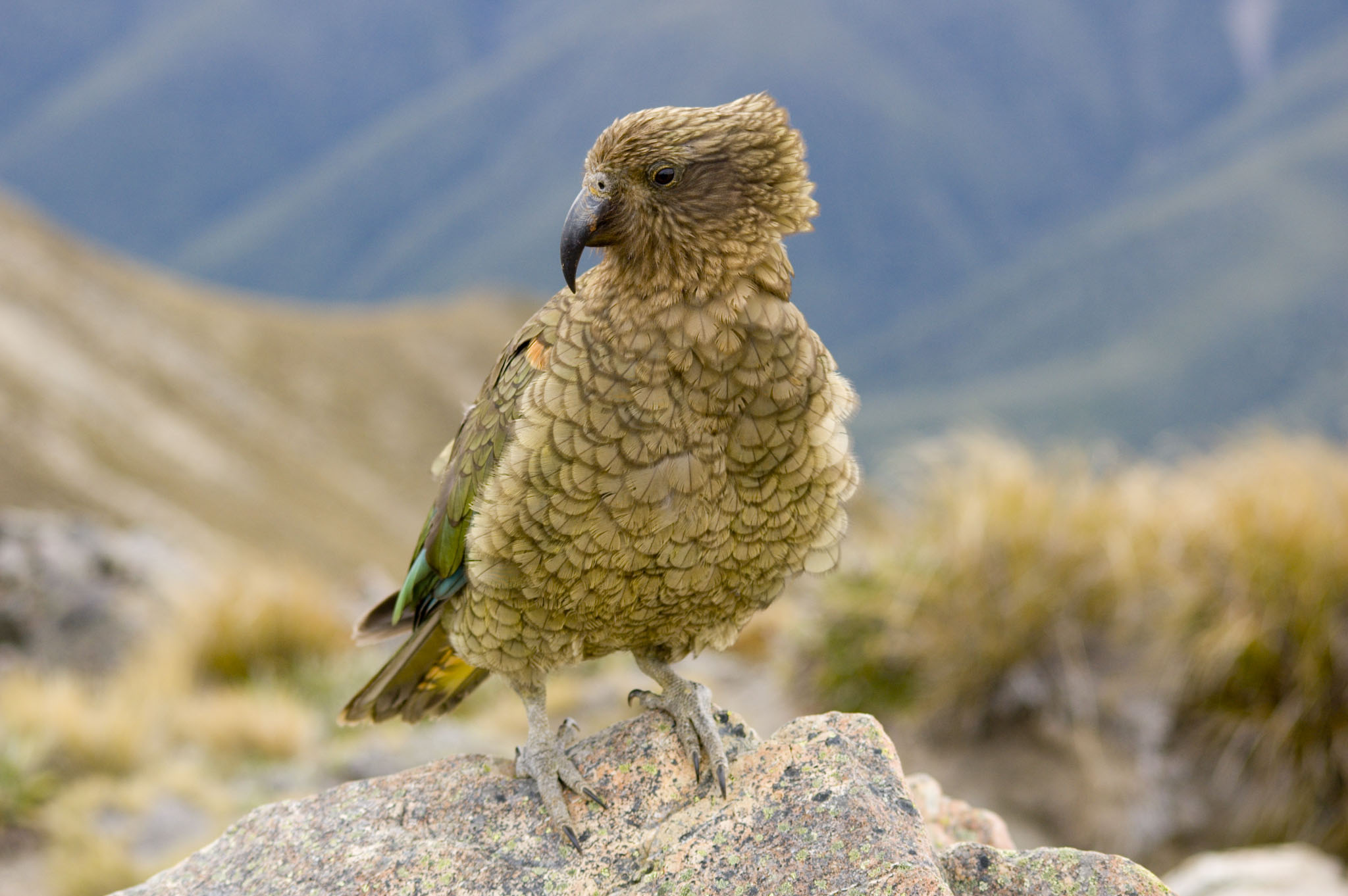 Kea seen on the Pancake Range, North Canterbury, South Island, New Zealand. Just after I caught it eyeing up my camera bag it retreated to my 4x4 where it tried to eat my windscreen wiper blades :) James Ball, 1/160 sec @ f/5. 18:18 03/01/2005.